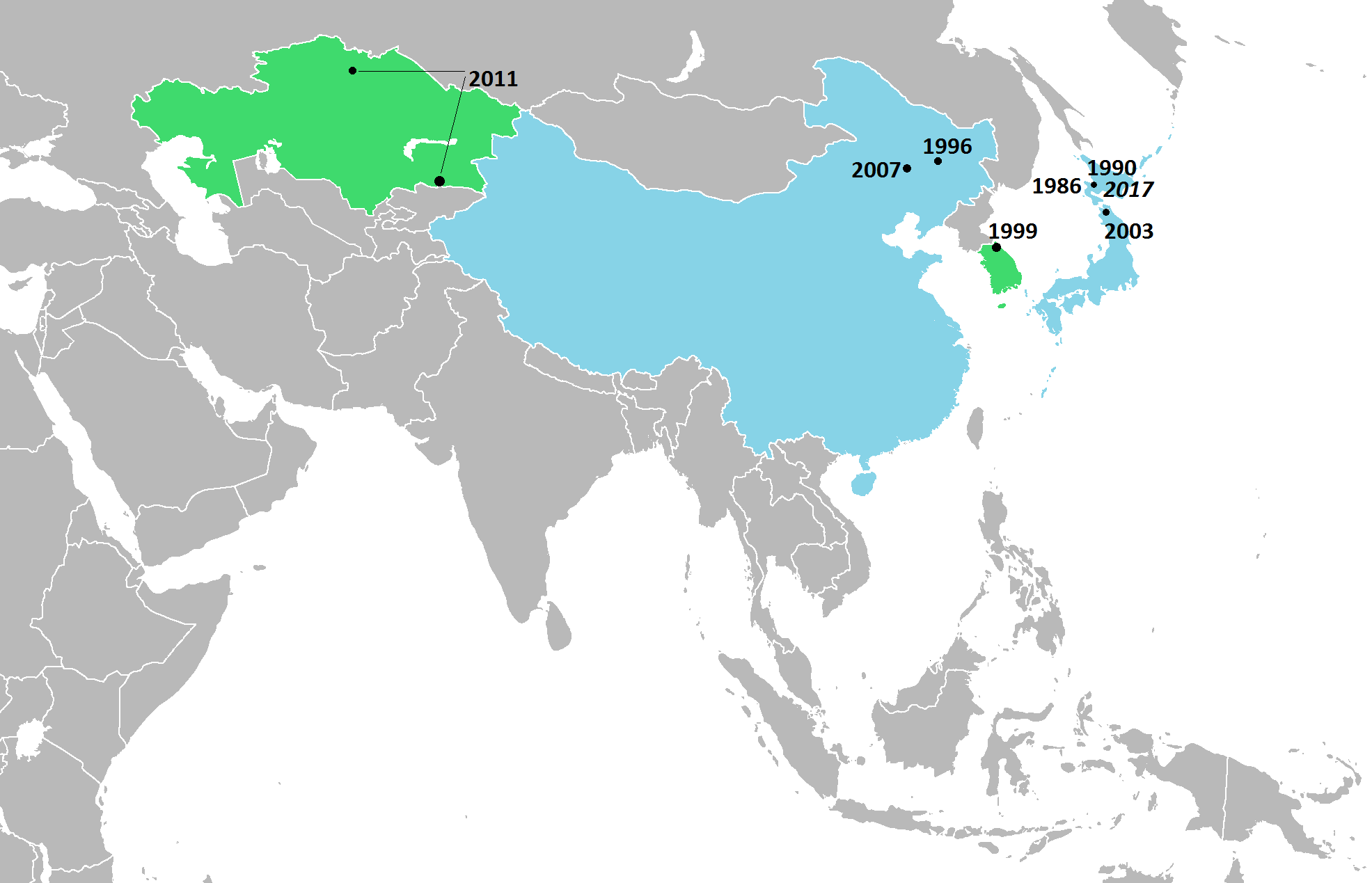 Locations of the Winter Asian Games: Green = Countries that have hosted one Asian Winter Games Blue = Countries that have hosted two or more Asian Winter Games